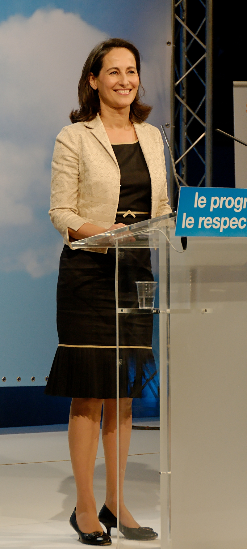 Ségolène Royal at a meeting held on Feb. 6, 2007 by the French Socialist Party at the Carpentier Hall in Paris.